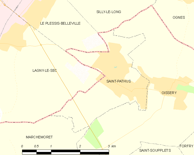 Map of French municipality Saint-Pathus